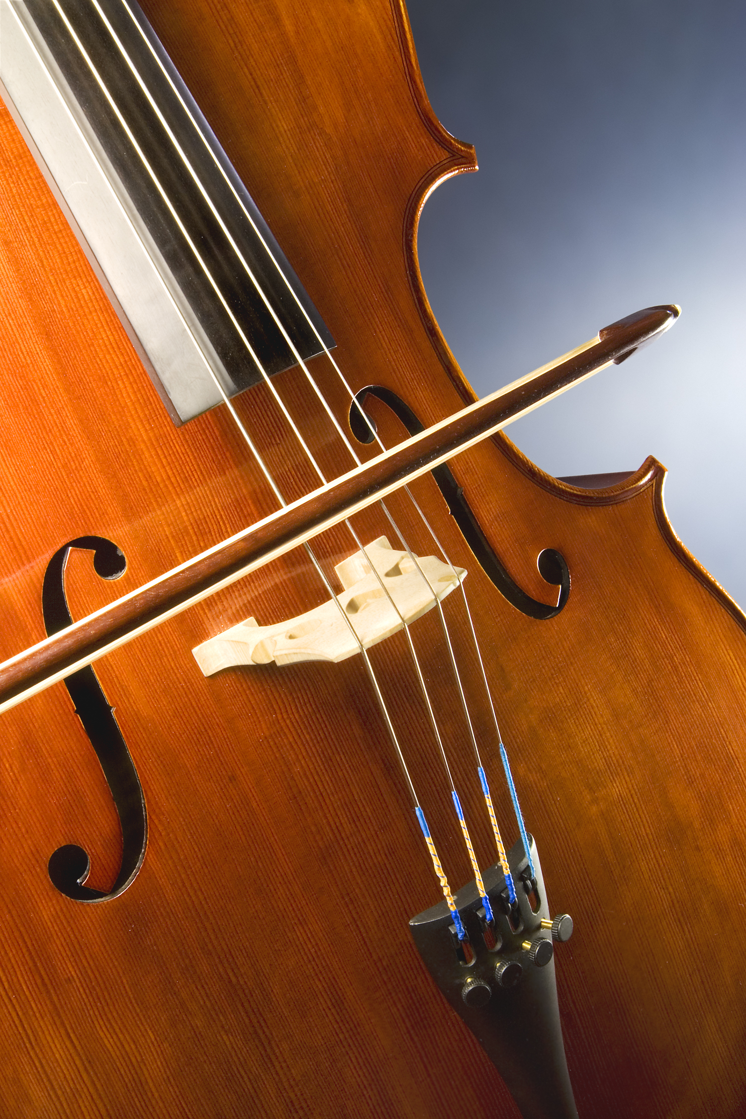 Study of a three-quarter size cello.